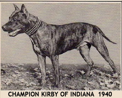 Kirby of Indiana was one of the earliest AKC Champion American Staffordshire Terrier. The breed was recognized by the AKC in 1936. Kirby of Indiana is an example of an early Amstaff Champion.